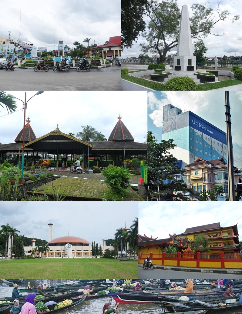 From top, left to right: Kayu Tangi roundabout, Proclamation monument of South Kalimantan, Sultan Suriansyah tomb complex, Hotel G-Sign of Banjarmasin, Sabilal Muhtadin Great Mosque, Soetji Nurani (EYD: Suci Nurani) Temple, and Traditional Floating Market of Kuin River.